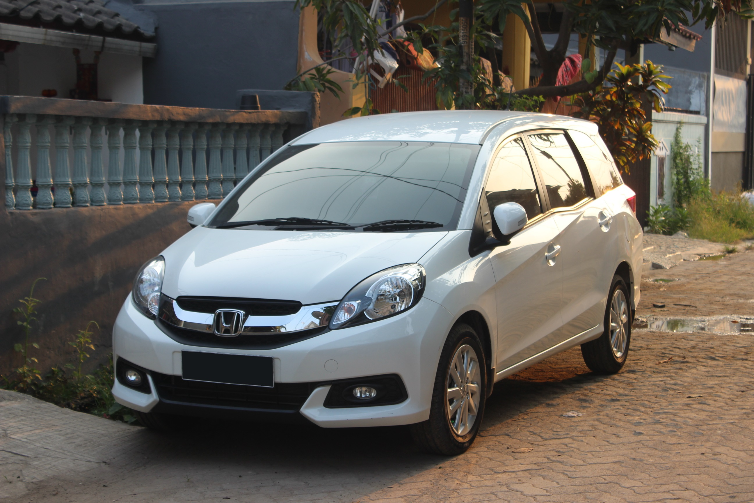 A Honda Mobilio E photographed in Dadap, Banten, Indonesia on June 2, 2015.